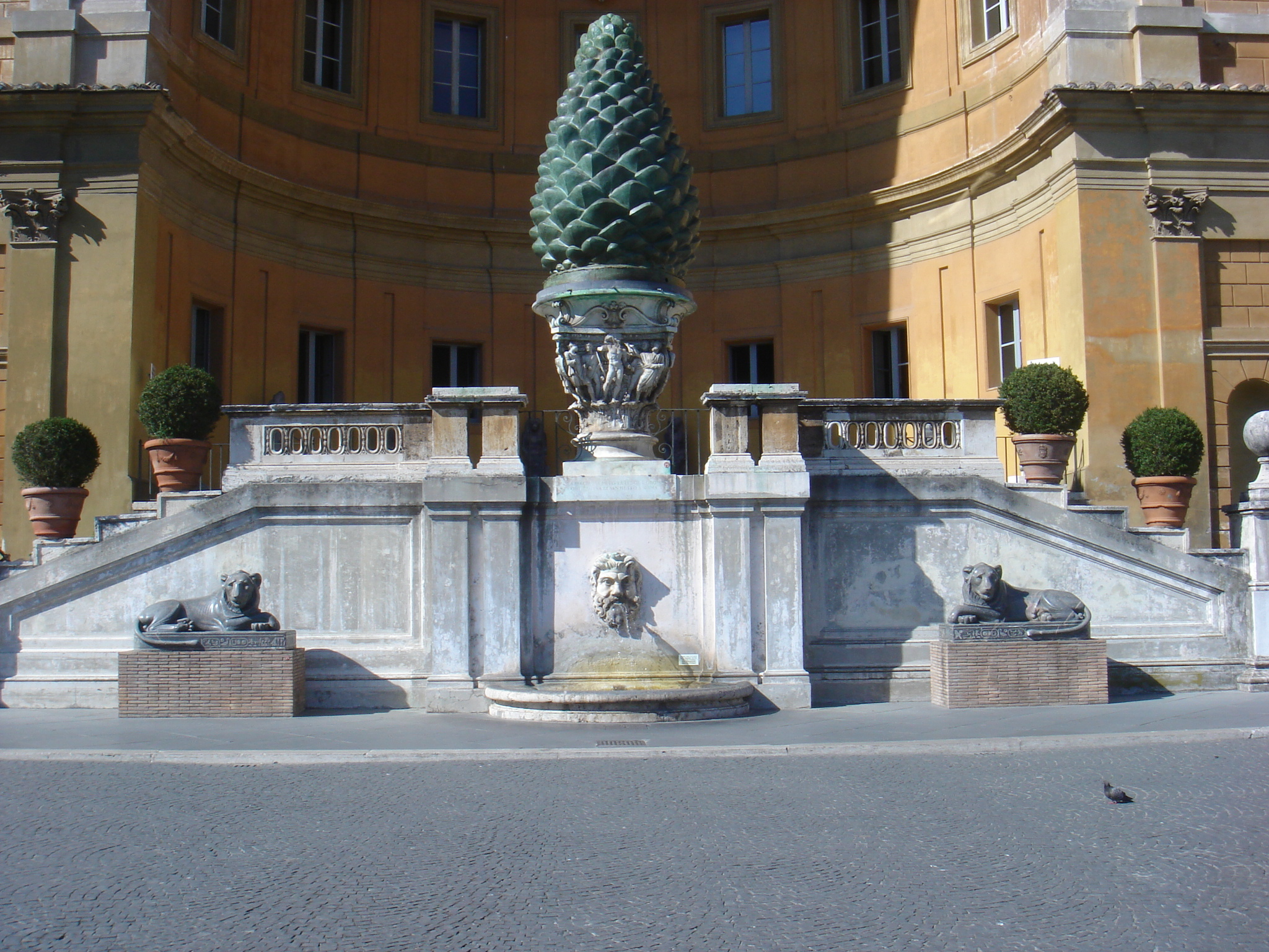 Vatican Museums Native nameMusei VaticaniLocationVatican CityCoordinates41° 54′ 23″ N, 12° 27′ 16″ E Established1506Web page control : Q182955 VIAF: 141443926 ISNI: 0000 0001 0807 3165 LCCN: n81003002 GND: 235092-0 SUDOC: 032013795 WorldCat institution QS:P195,Q182955